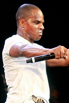 Kirk Franklin at the Experience concert, Tafawa Balewa Square, Lagos Island, Lagos